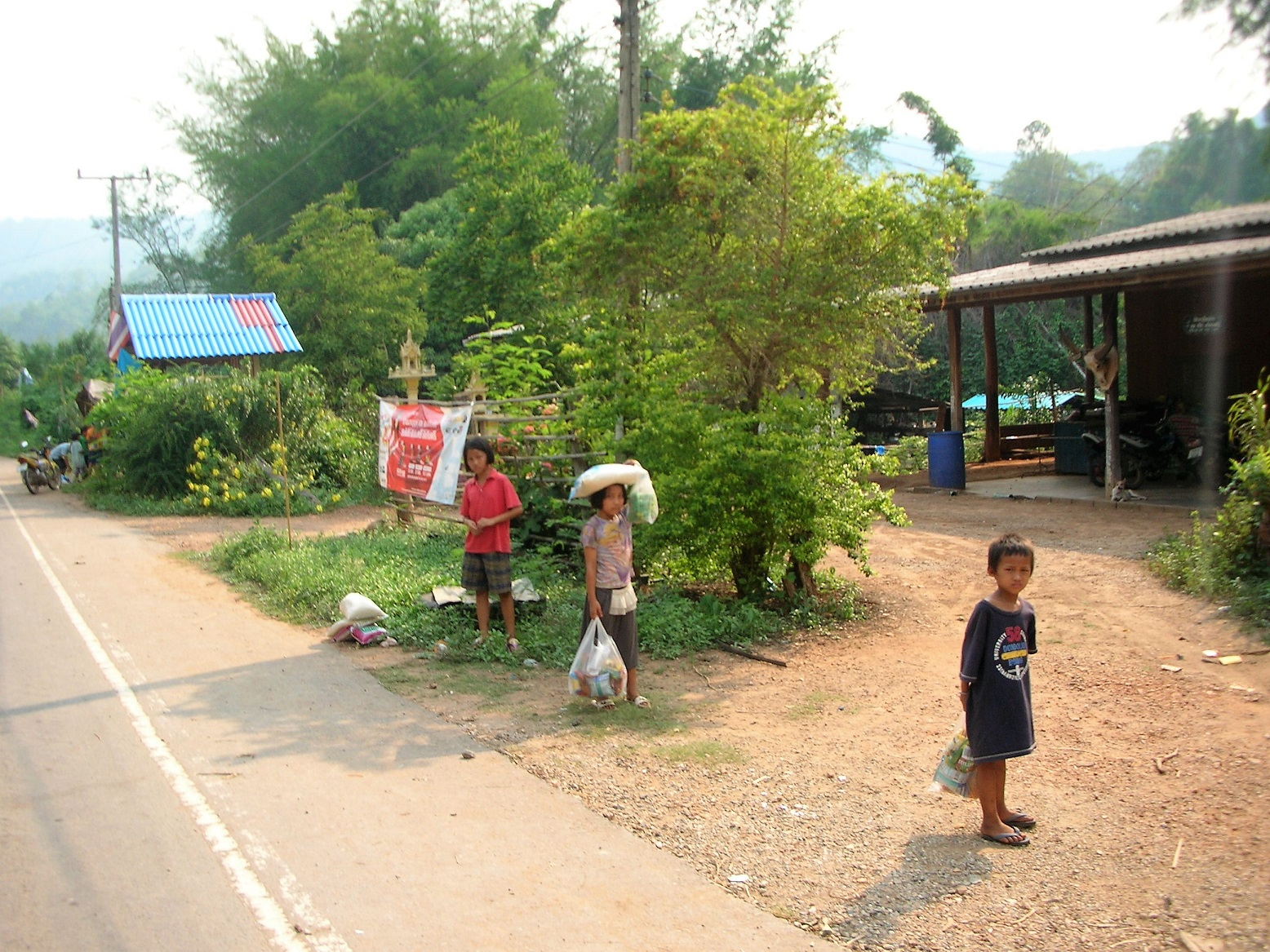 Local children in Tambon Bong Ti, Kanchanaburi Province